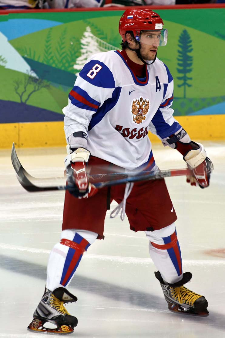 Alex Ovechkin at the 2010 Olympic Winter Games. This file has been extracted from another file: AlexanderOvechkin2010WinterOlympicslineup.jpg